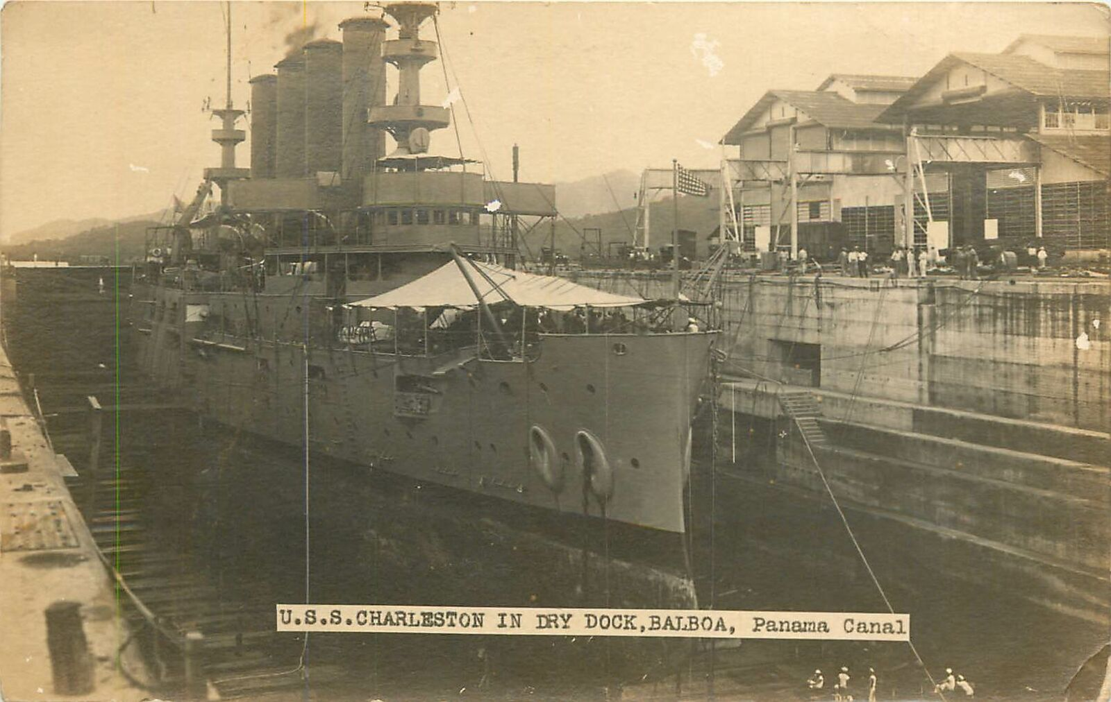 U.S.S. Charleston in Panama Canal in 1910s